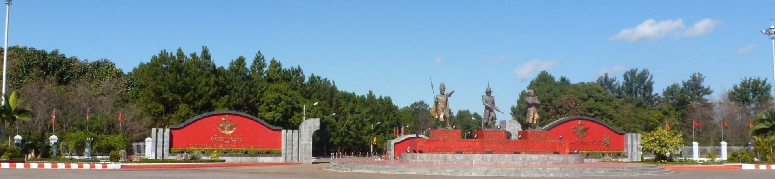 Front gate of the Defence Services Academy